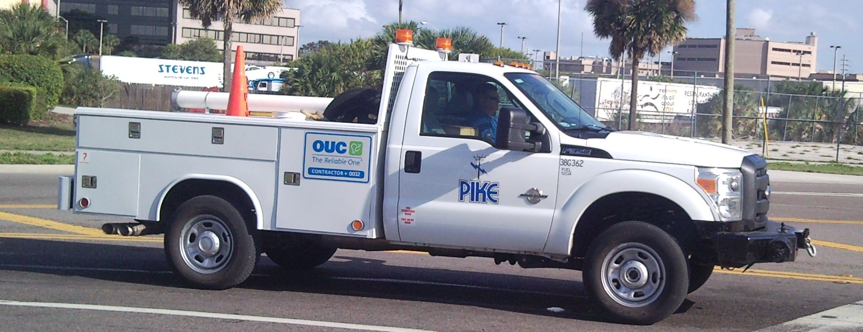 2011-present Ford F-350 Super Duty OUC photographed in Orlando, Florida, USA.